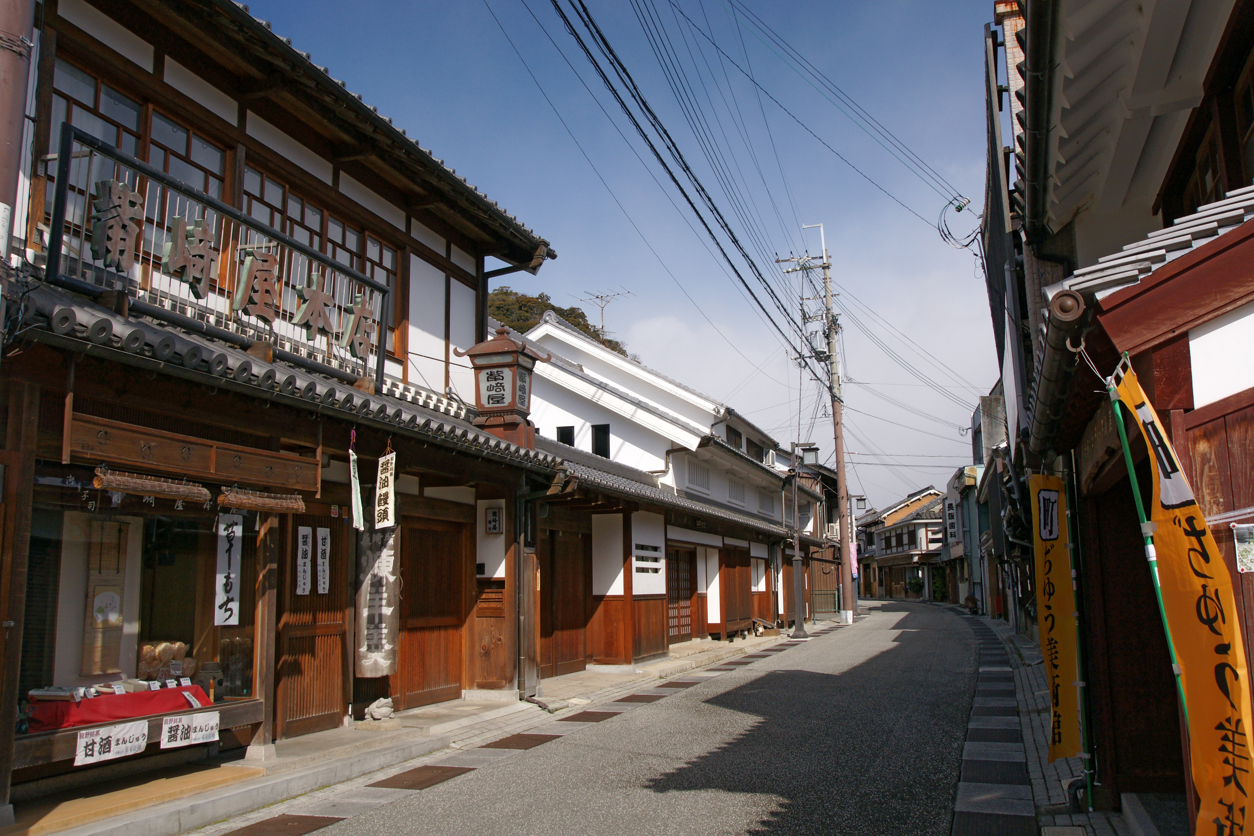 Shimogawara (bourg in Tatsuno Castle) in Tatsuno, Hyogo prefecture, Japan